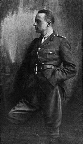 Playwright Capt. Edward Knoblock circa 1918